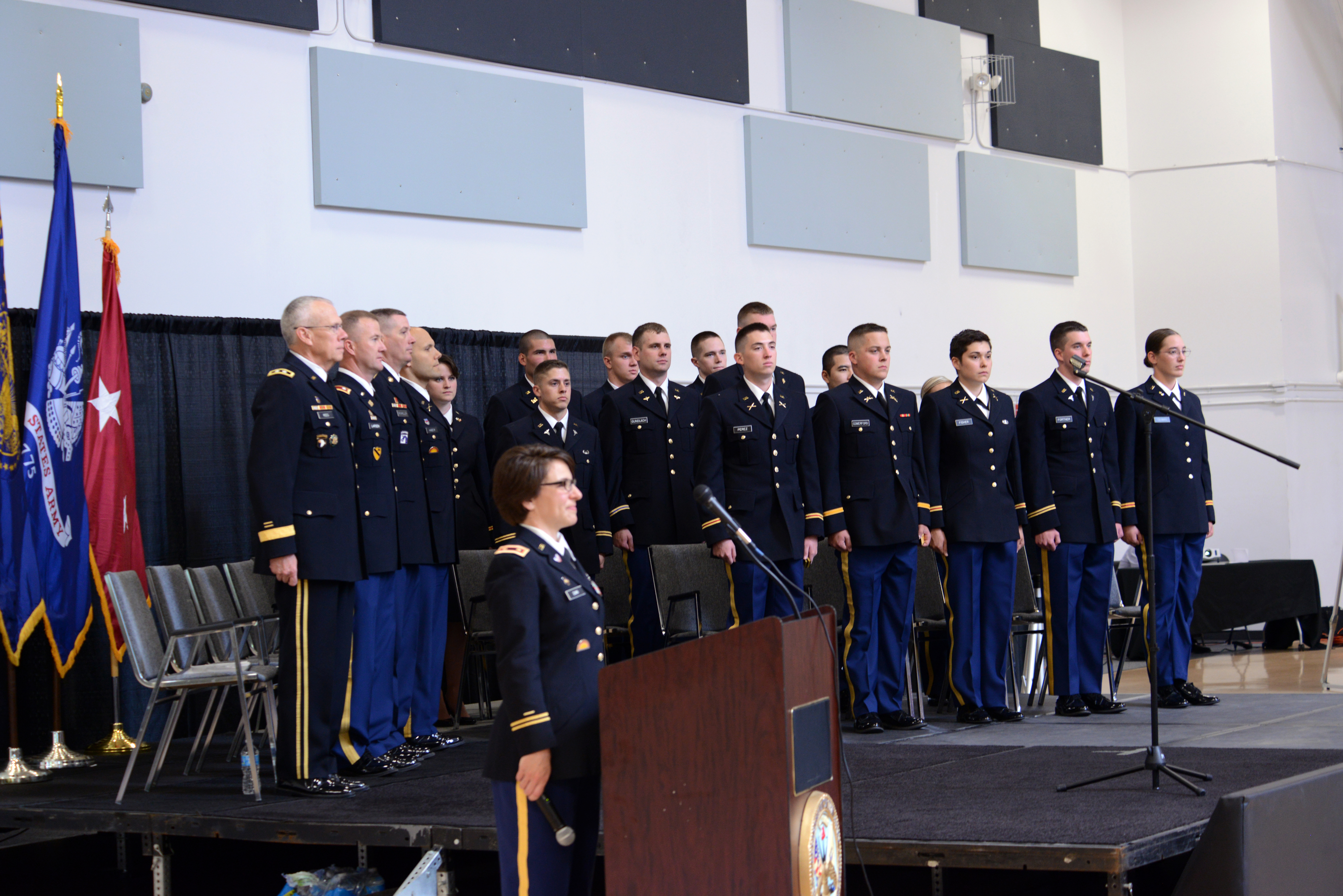 Oregon State University ROTC cadets stand during the playing of the National Anthem during their commissioning ceremony at McAlexander Fieldhouse in Corvallis, Ore., June 14, 2013.